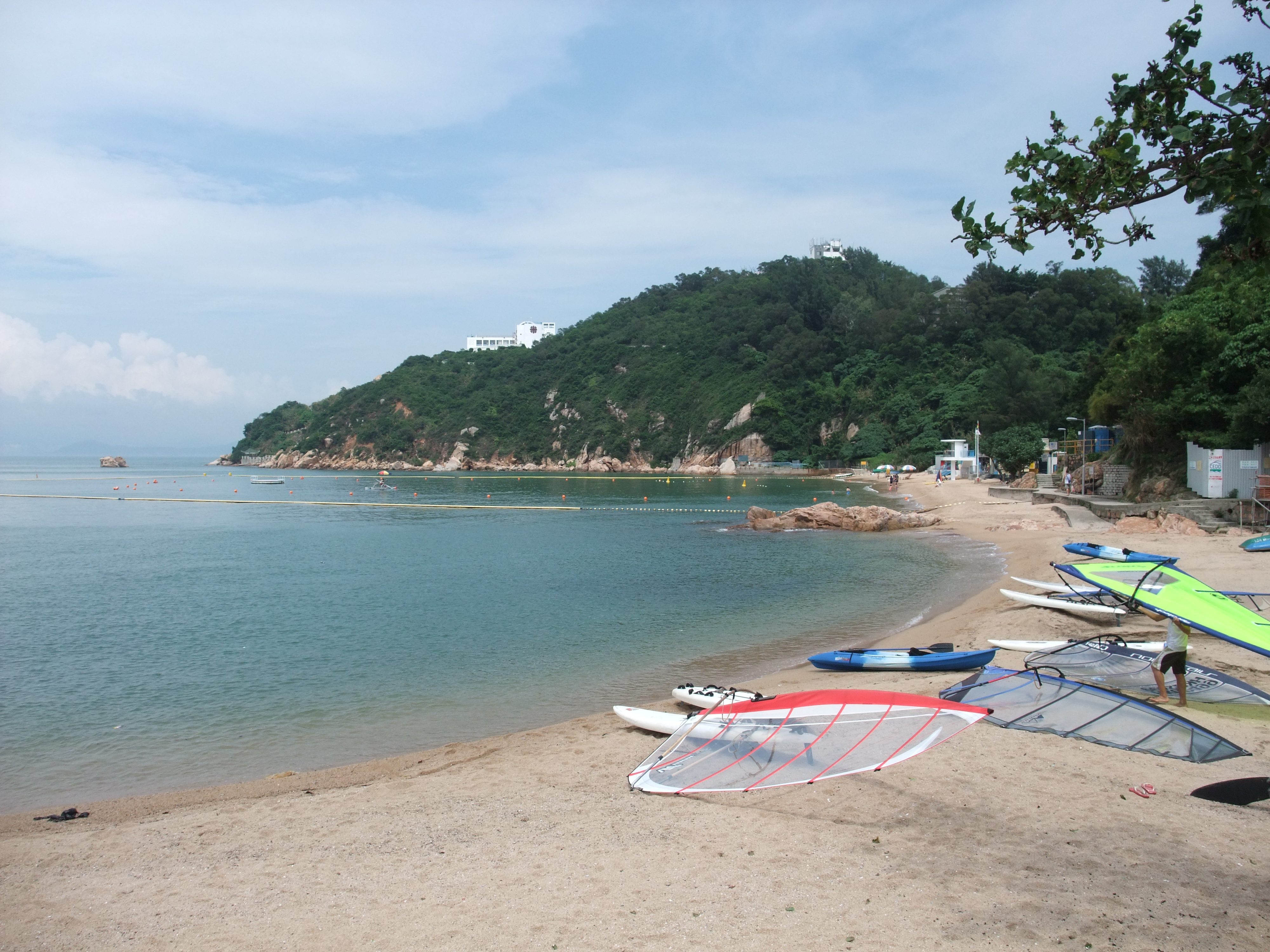 Photo of Kwun Yam Beach